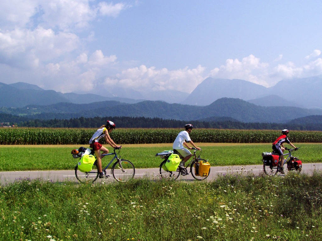 Three male cyclists wearing helmets during a summer bicycle tour in rural Slovenia near Luže.